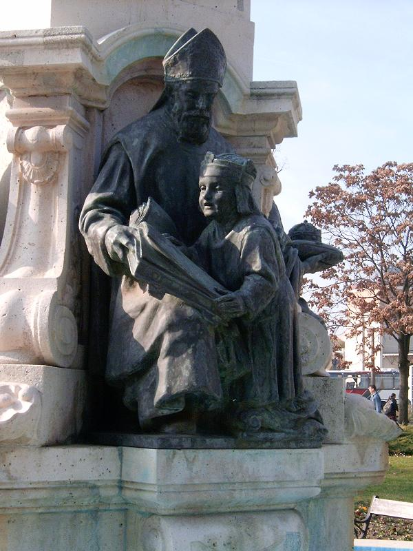 Püspökkút Memorial Column, Székesfehérvár